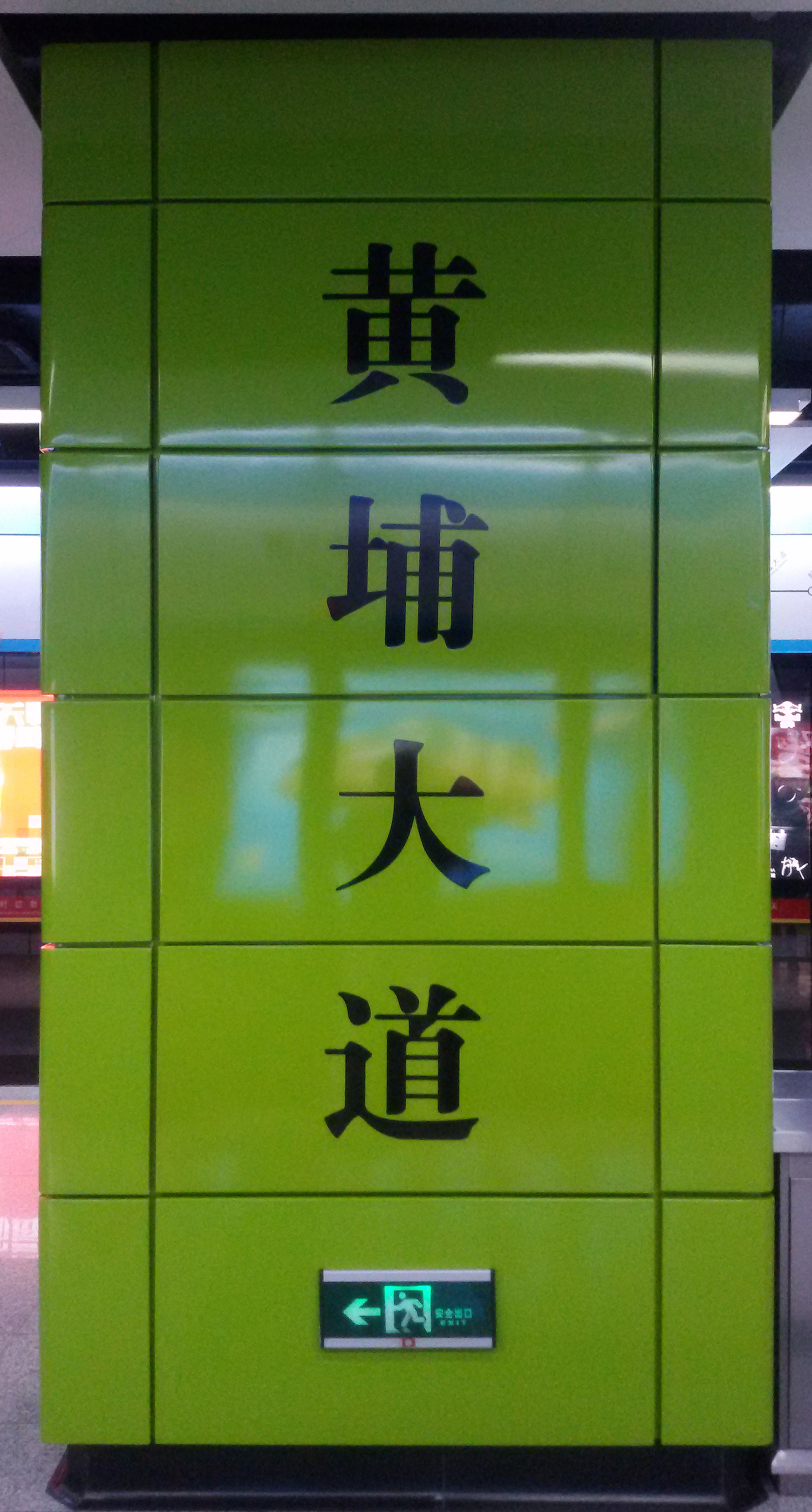 WORD on PILLAR for Huangpu Dadao Station in Guangzhou Metro